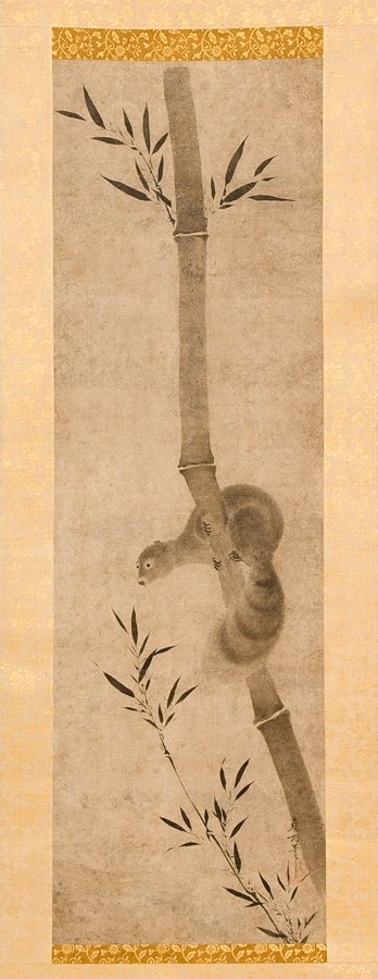 Squirrel on a Bamboo Stalk, painting bearing the signature and seal of Sōami, Richard Lane Collection, Honolulu Museum of Art